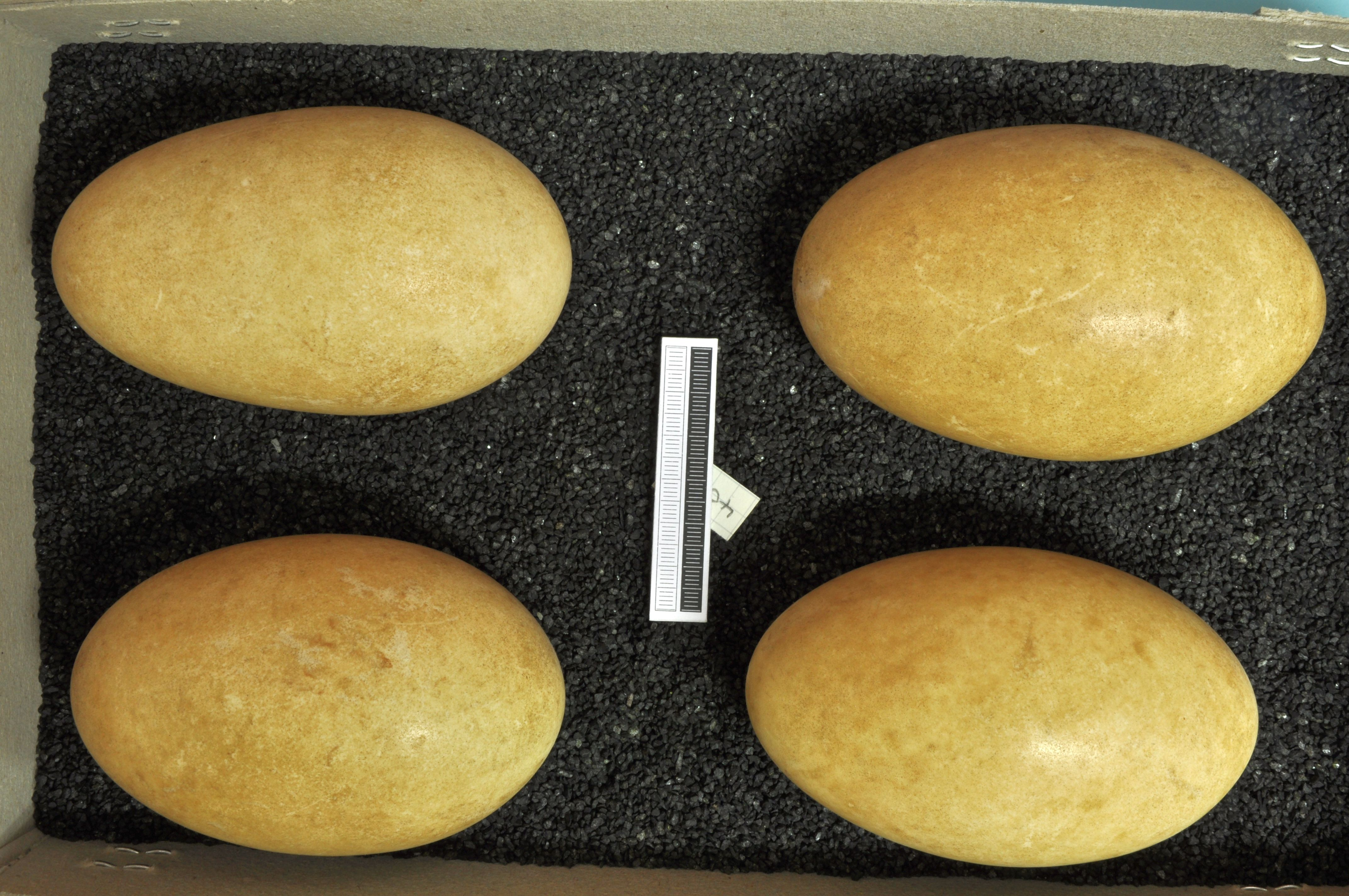 Whooper swan Cygnus cygnus, egg, Coll. Museum Wiesbaden, Origin: Offerdal, Sweden, 09.06.1975, leg. W. Abelmann